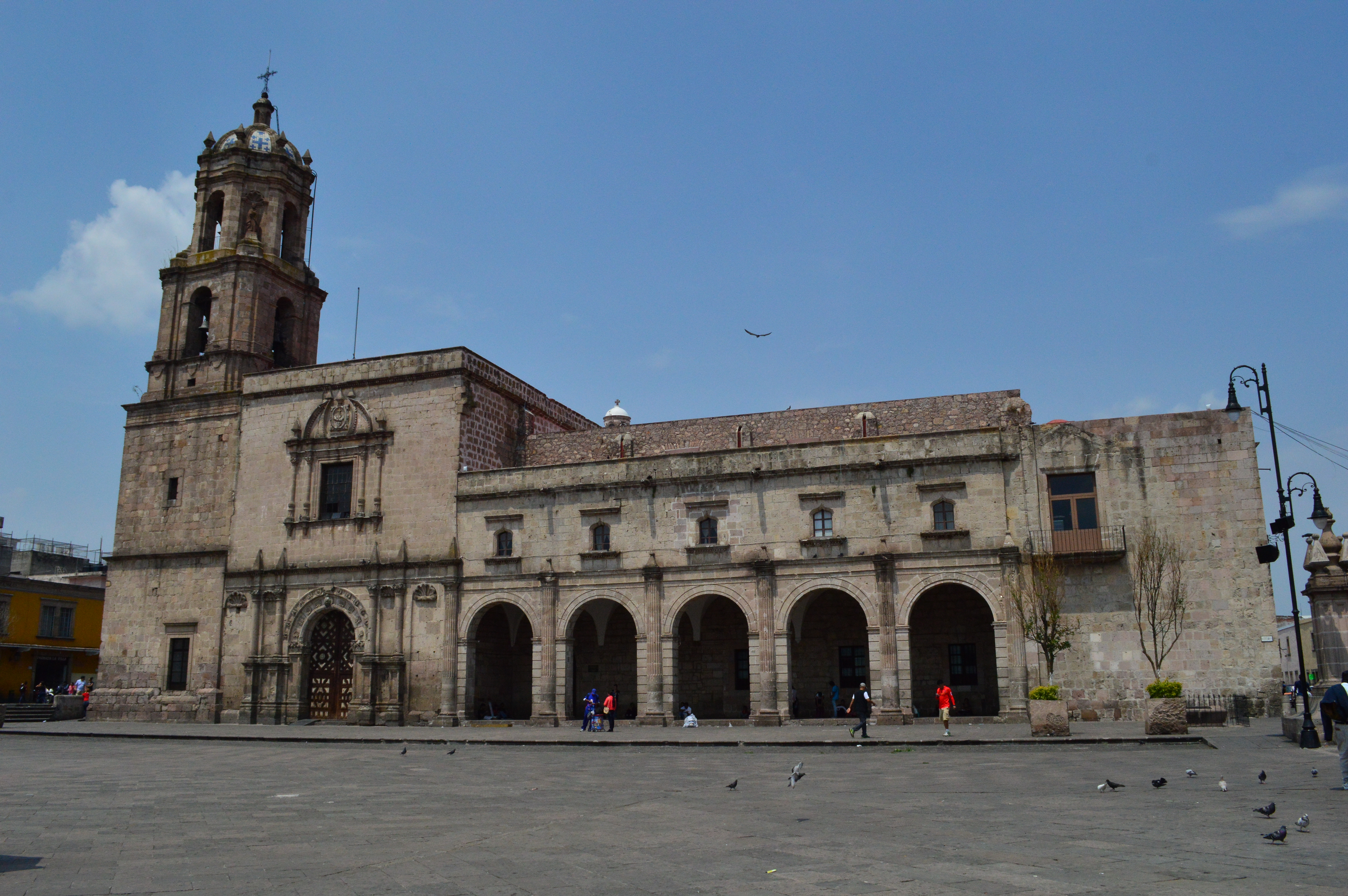 San Francisco church and cloister, which is home to the Casa de las Artesanias in Morelia, Michoacan